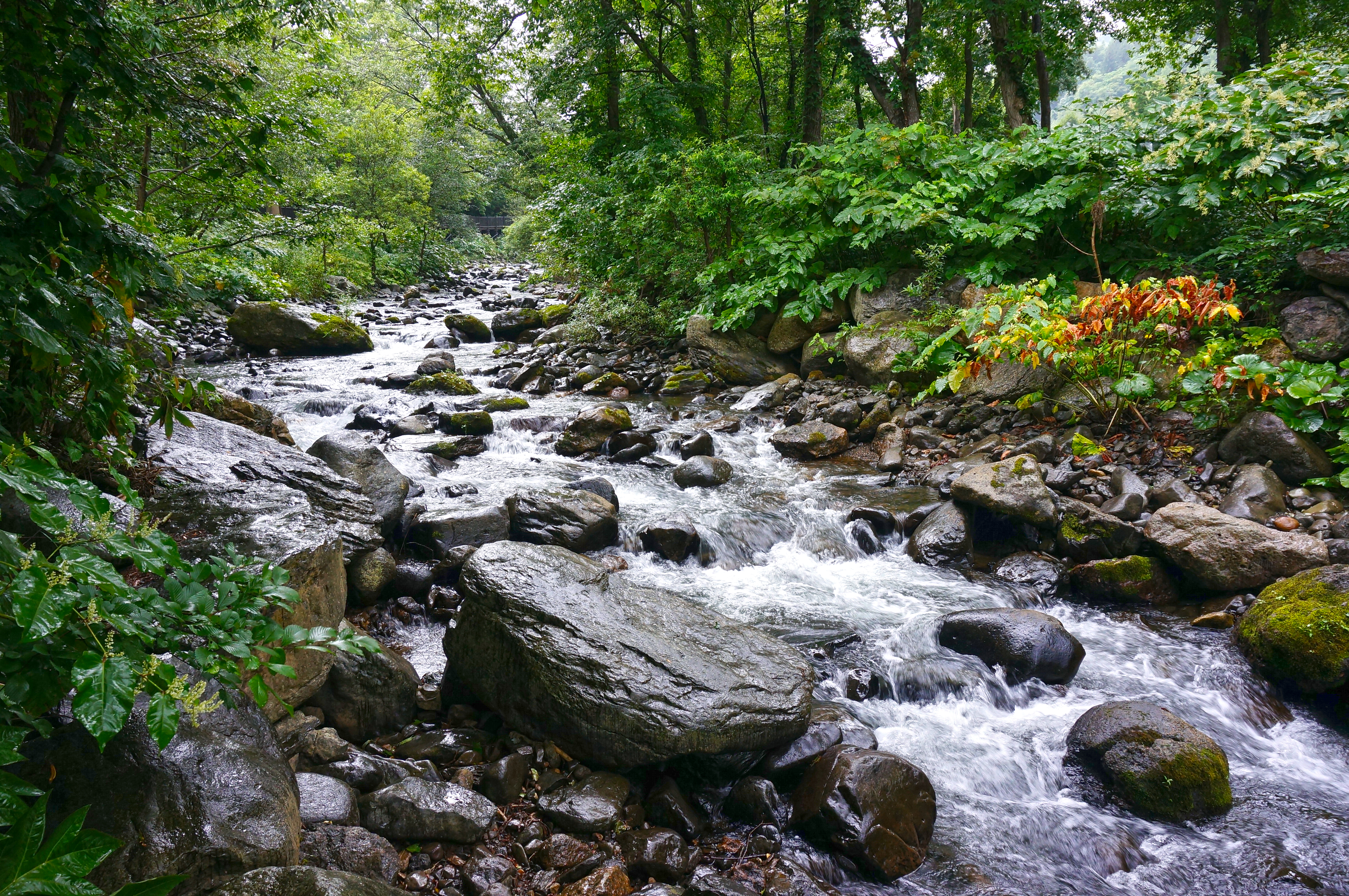 Riparian forest at Asarigawa Onsen in Otaru, Hokkaido prefecture, Japan.